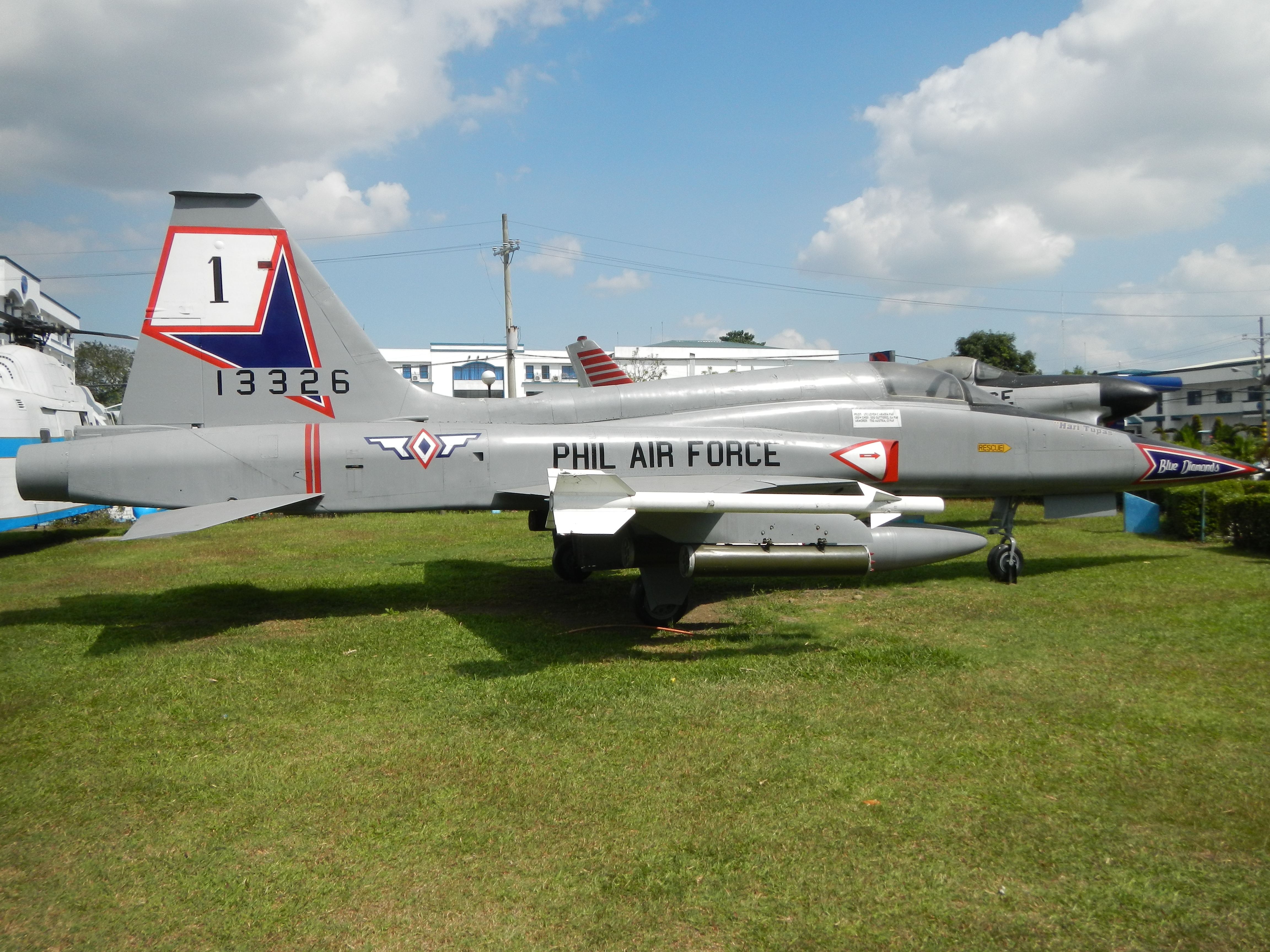 Upload Wizard photos of - Villamor Air Base [1] named after Jesús A. Villamor [2] Philippine Air Force [3] locted at Parañaque City and Pasay City, Metro Manila - the - Philippine Air Force Museum or Villamor Air Base Aircraft PAF Museum or Aerospace Museum Villamor Air Base Pasay City [4] --- List of former aircraft of the Philippine Air Force [5] - the Museum includes --- a) The Bell UH-1 Iroquois unofficially Huey [6] Bell UH-1 Iroquois Bell UH-1 family UH-1 Huey, b) North American F-86 Sabre [7] c) Lockheed T-33 [8] T-33 at the Philippine Air Force Museum at Villamor Air Base d) Vought F-8 Crusader redirect from F-8 [9] F-8H Crusader of the Philippine Air Force. c. 1978 e) North American F-86D Sabre [10] Acquired 20 F-86Ds, beginning 1957; part of the U.S. military assistance package f) F-86D of the Philippine Air Force Northrop F-5A/B Freedom Fighter and the F-5E/F Tiger II [11] [12] the Philippine Air Force acquired 37 F-5A/B from 1965 to 1998 g) Sikorsky S-62 [13] S-62B One S-62 was fitted with the main rotor system of the S-58 h) Douglas C-47 Skytrain [14] Philippine Air Force President Magsaysay of the Philippines was killed in the crash of a Philippine Air Force C-47 in 1957 Some were ex-RAAF C-47s received as foreign aid.[15] i) Grumman HU-16 Albatross [16] j) NAMC YS-11[17] k) Beechcraft T-34 Mentor[18] Beechcraft T-34 Mentor l) Cessna T-41 Mescalero[19] m) North American T-6 Texan[20] n) North American T-28 Trojan [21] T-28C 140533 - Villamor AB in Manila, The Philippines.